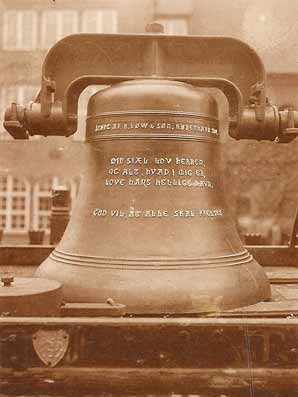 One of the bells in Godthaabskirken, 1922.